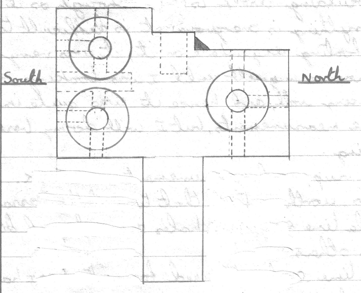 Annery Limekiln from above, Weare Gifford, Devon, England